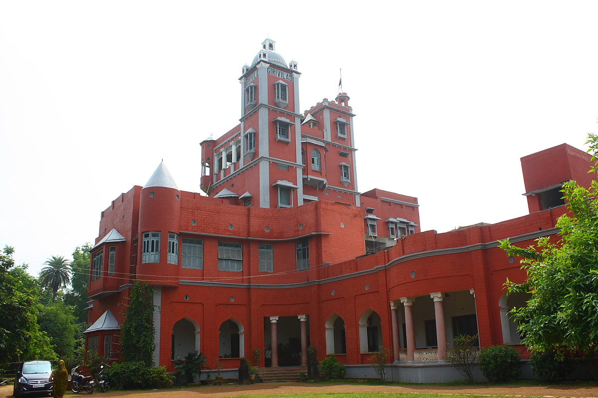 Girivilas Palace is from the Princely State of Sarangarh in Raigarh Dist. of Chhattisgarh, India.